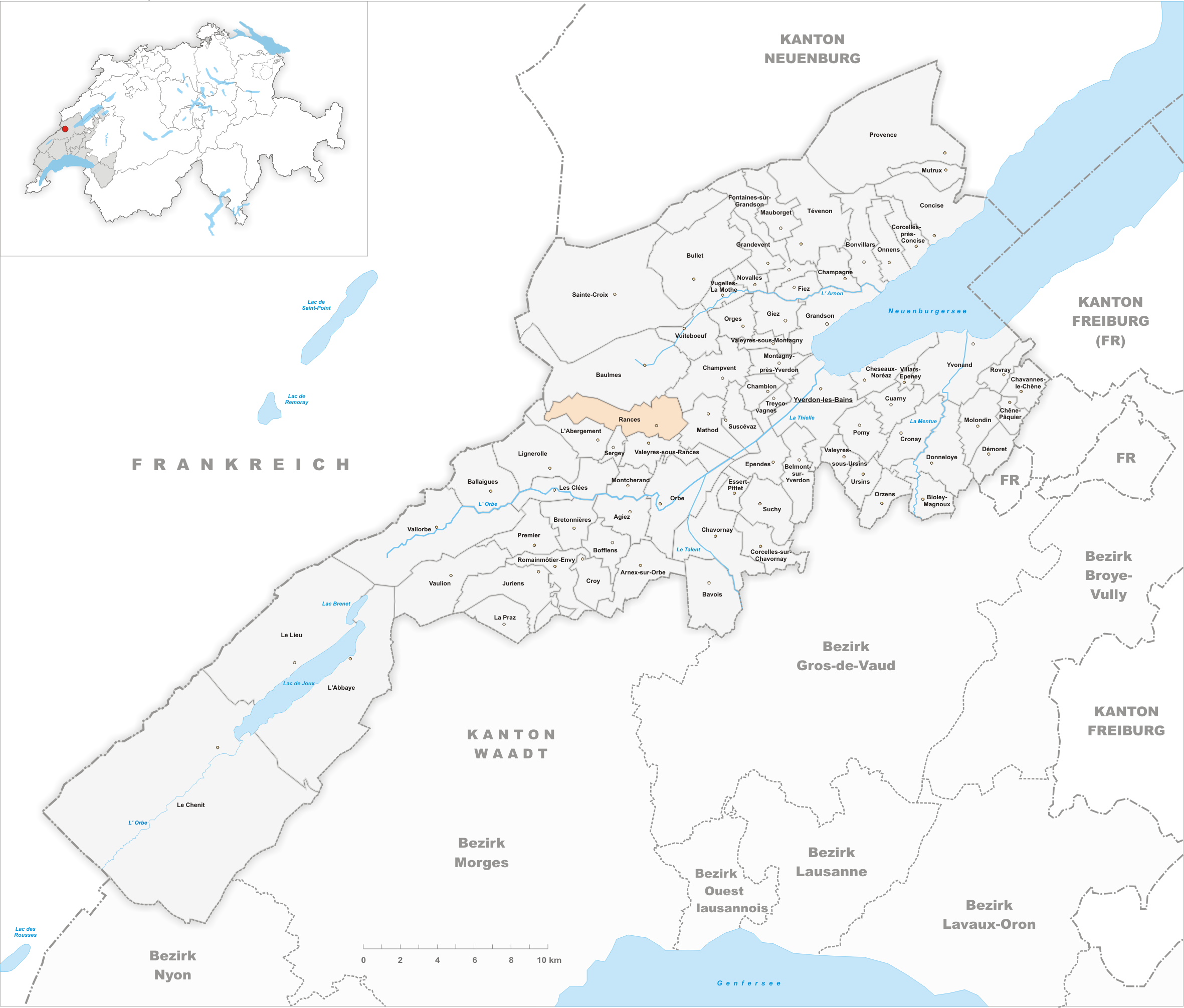 Municipality Rances